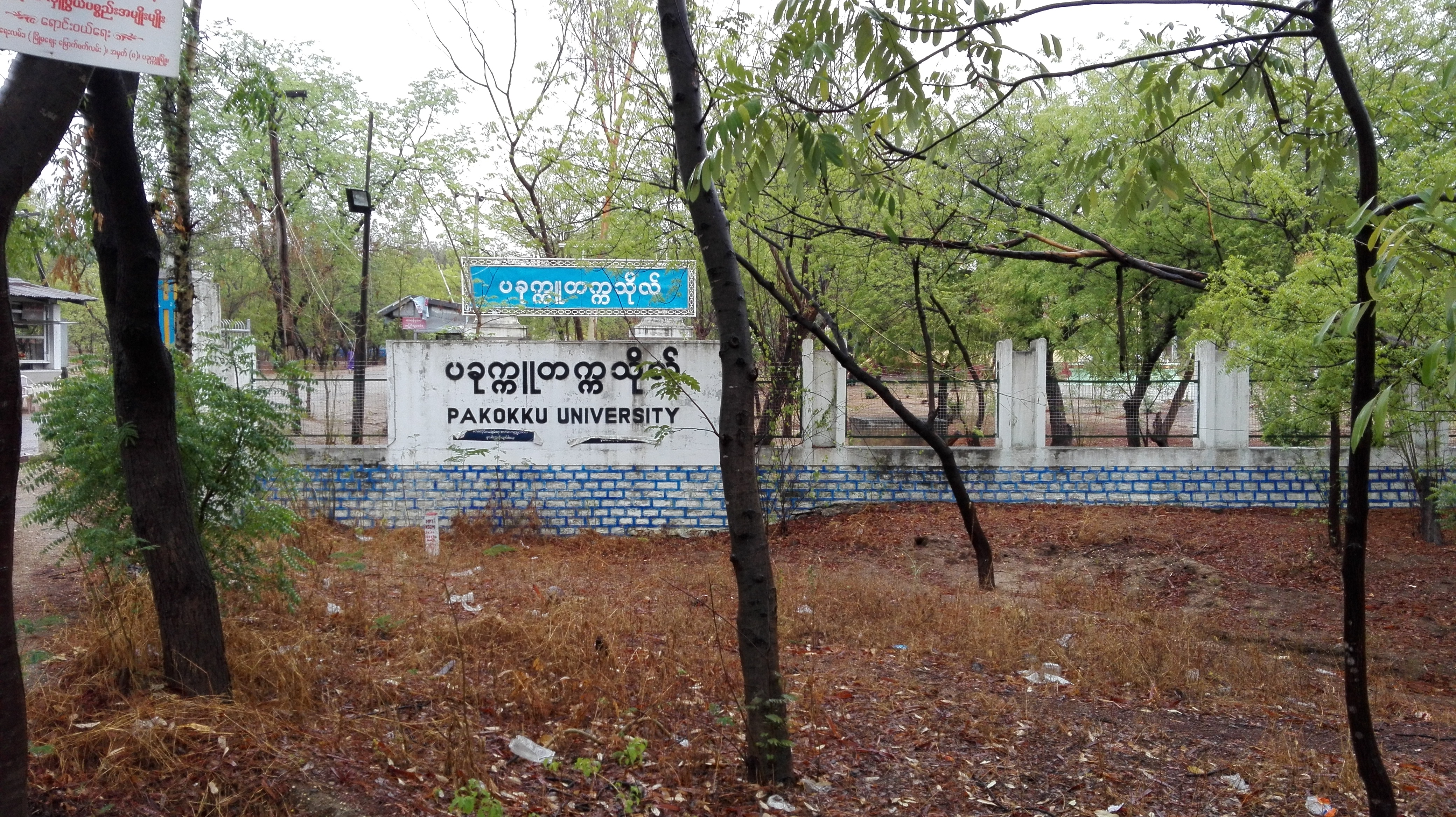 An entrance of the university of pakokku.